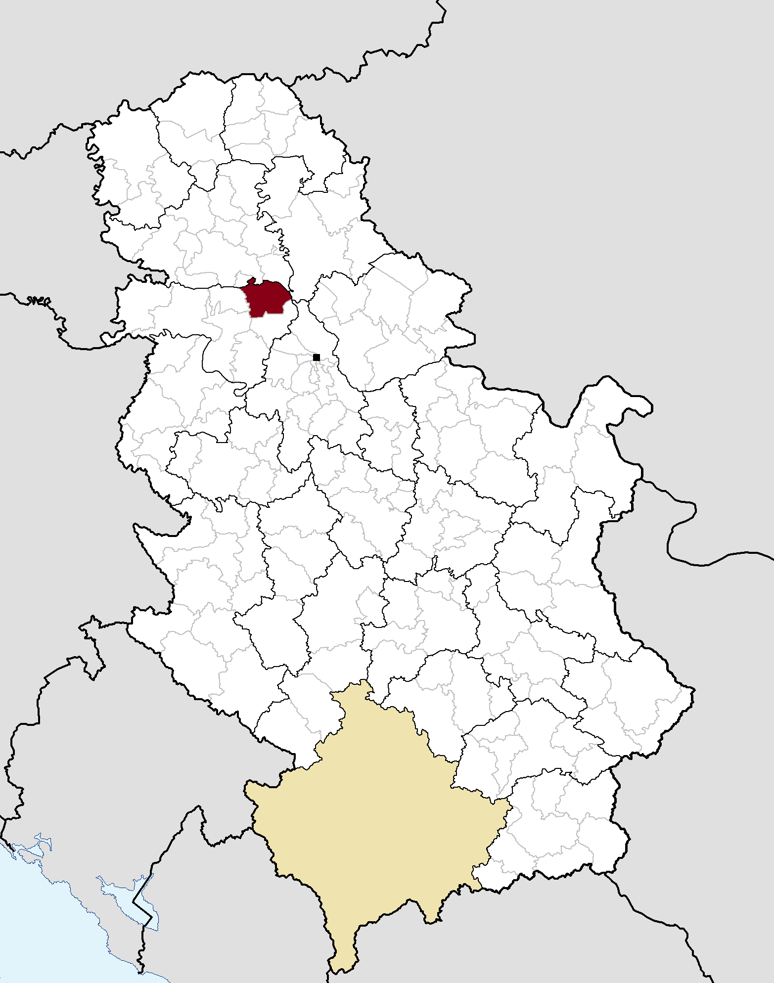 Municipal location in Serbia